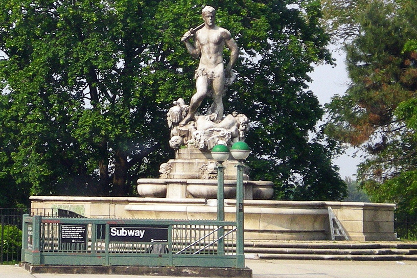 Civic Virtue statue on Queens Blvd. west of Borough Hall in Kew Gardens. IND subway station stair in foreground.